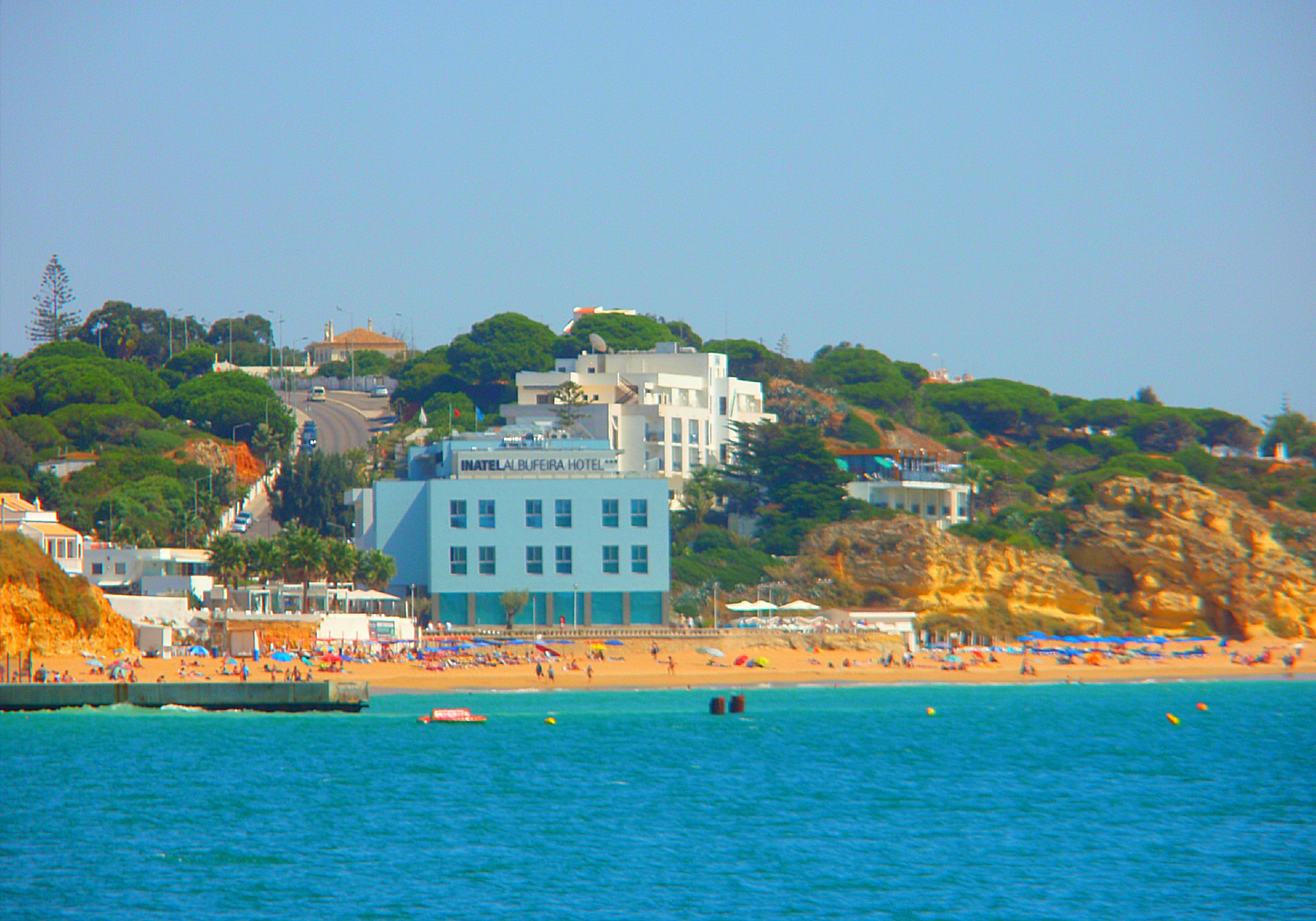 Praia do Inatel across the bay from Albufeira harbour (Porto de Abrigo) view point in the city of Albufeira, Algarve, Portugal.